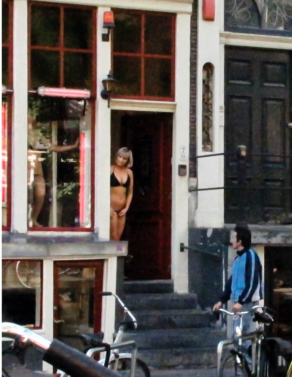 I know is not original but I couldn't end my Amsterdam series without a couple of these... Featured in